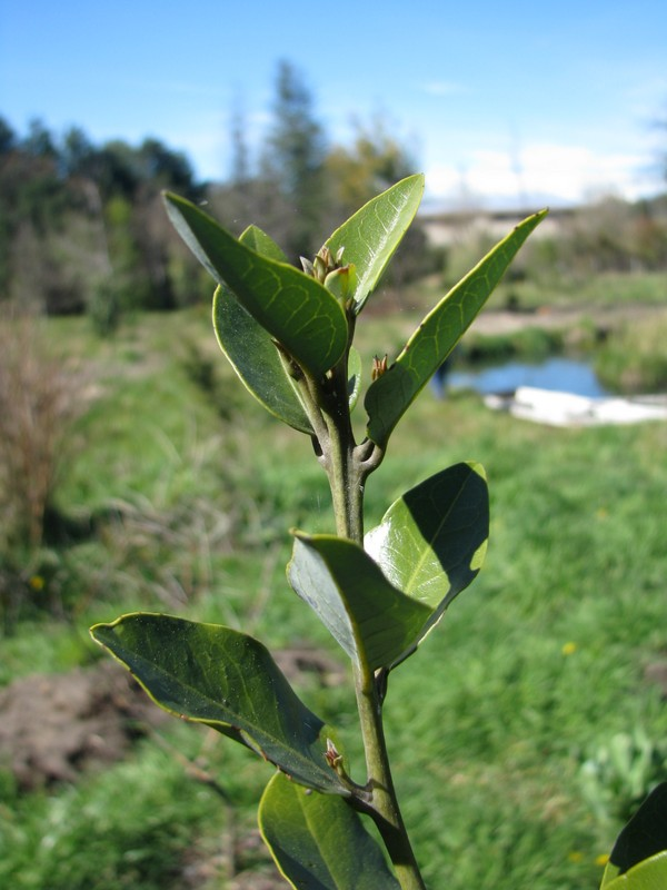 Beilschmiedia berteroana